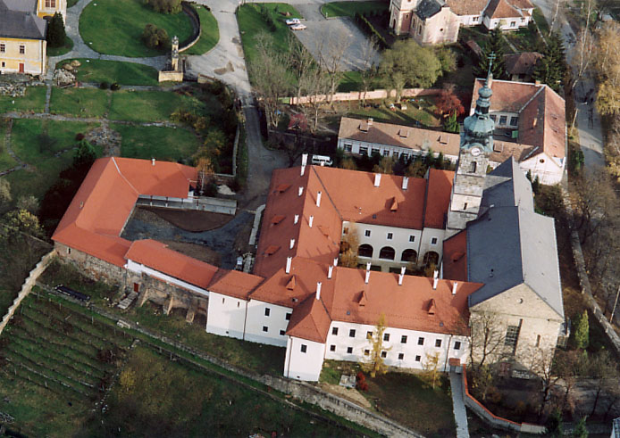 Franciscan Convent - Szécsény - Hungary - Europe